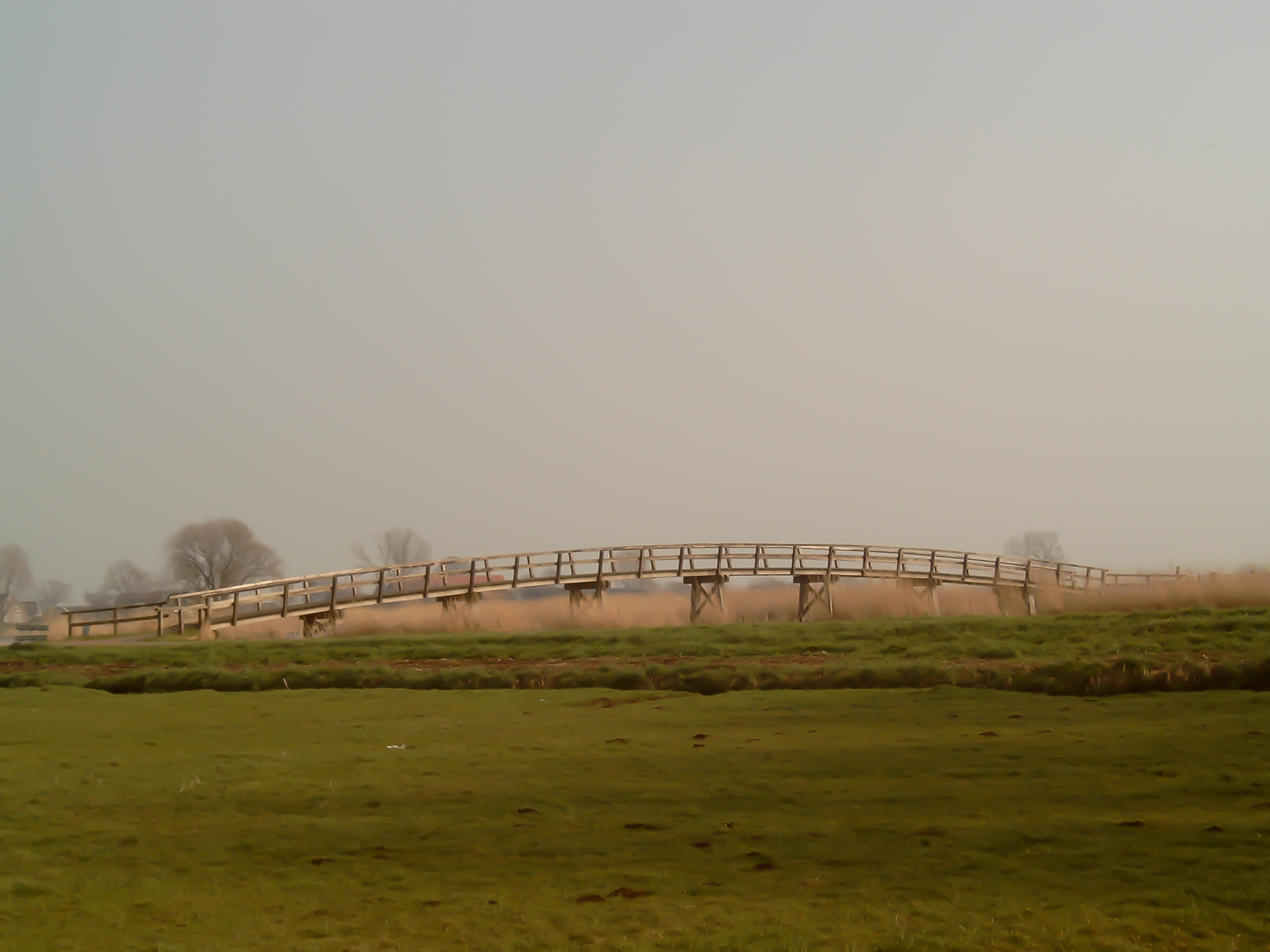 Streefkerk, bicycle bridge in the polders